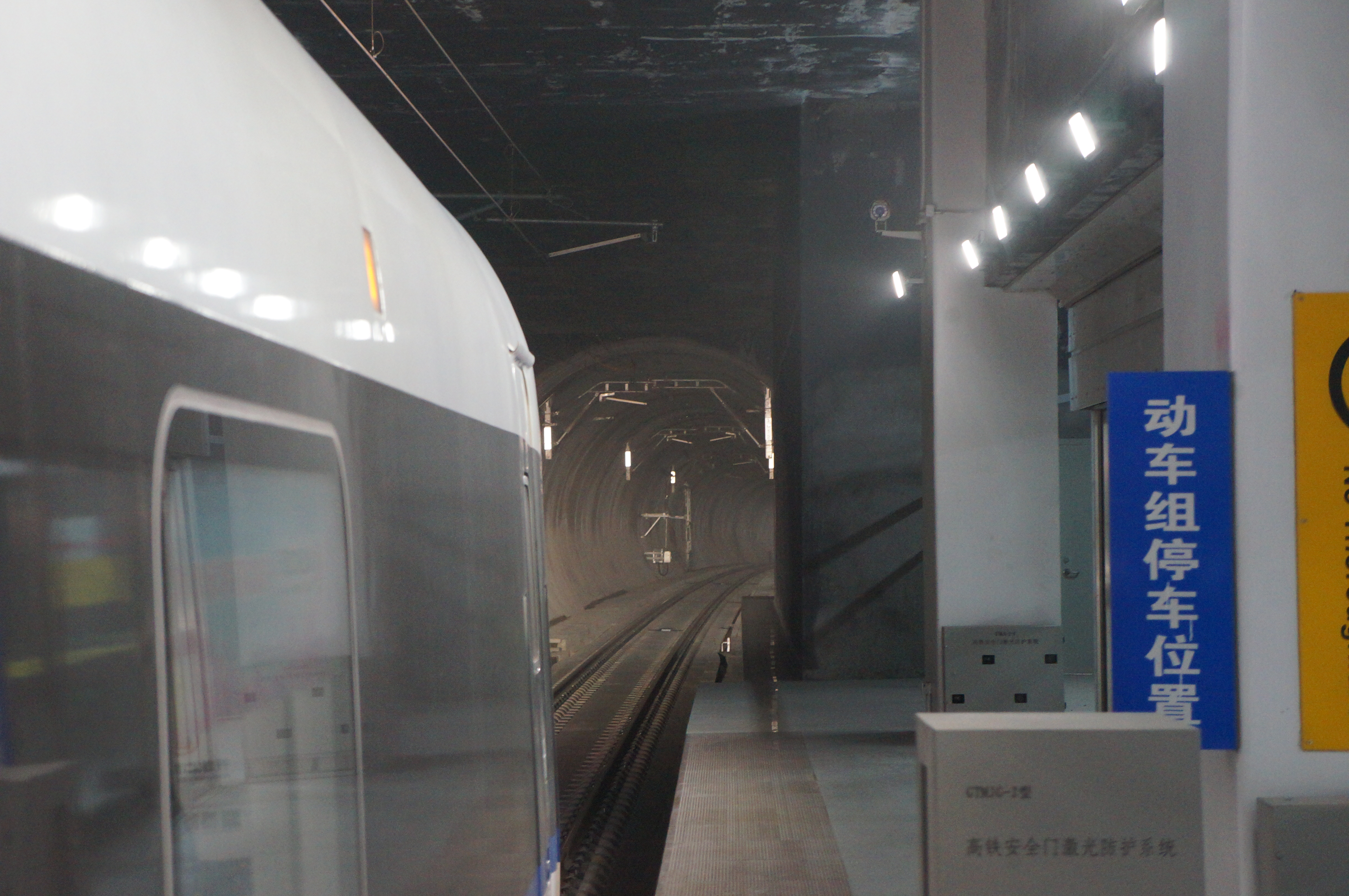 201712 Tunnel at Bafangshan Station